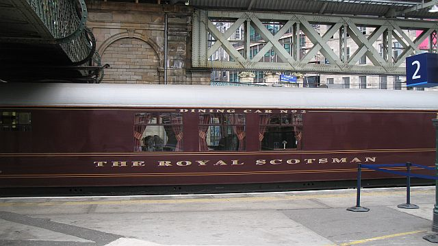 Dining car. The Royal Scotsman, luxury railtours. Waiting at platform 2 for departure for Spean Bridge, direct.